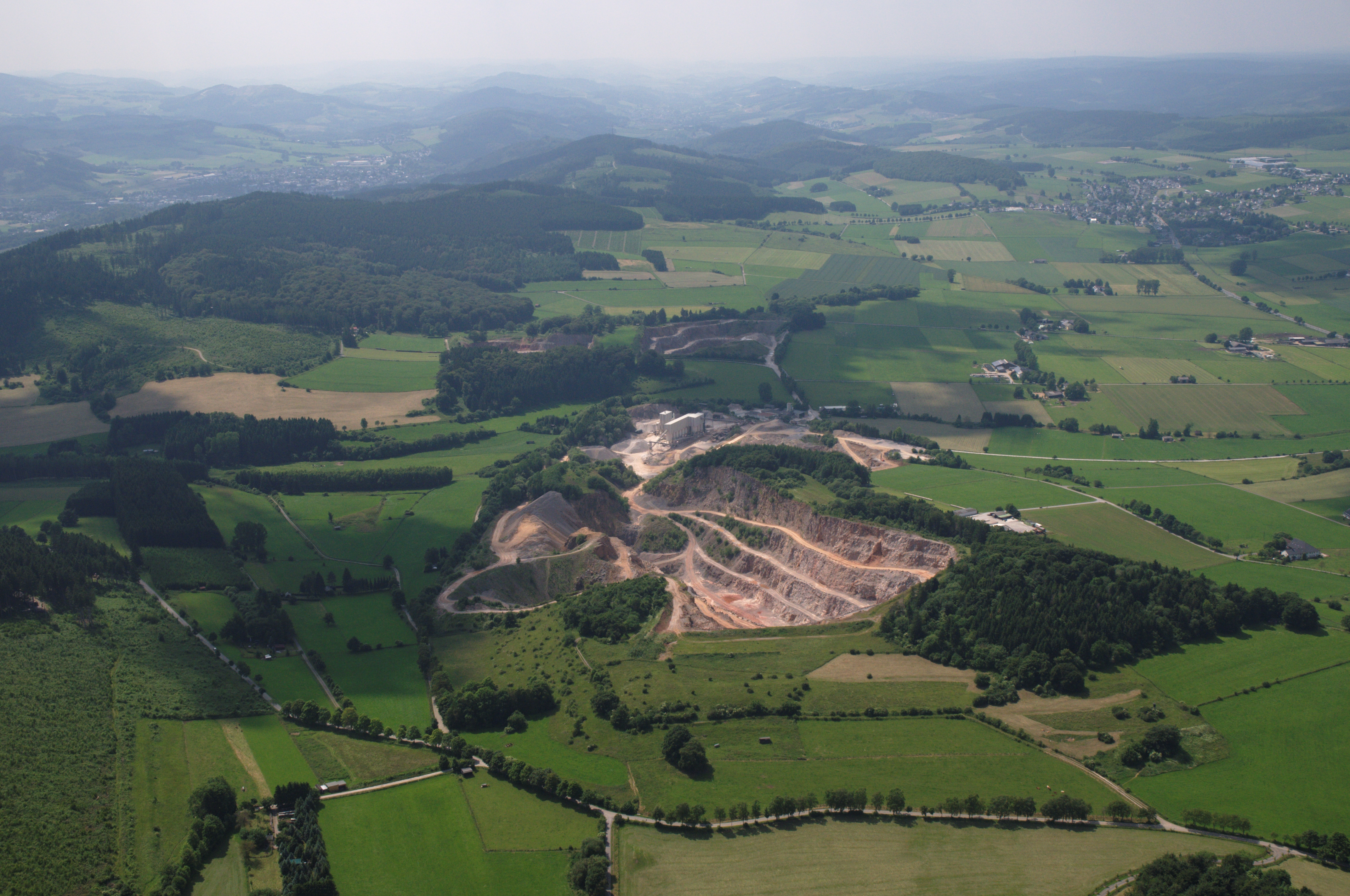 Fotoflug Sauerland-Ost - Steinbruch Burhagen, südwestlich von Brilon, hinten rechts Altenbüren The making of this document was supported by the Community-Budget of Wikimedia Germany.